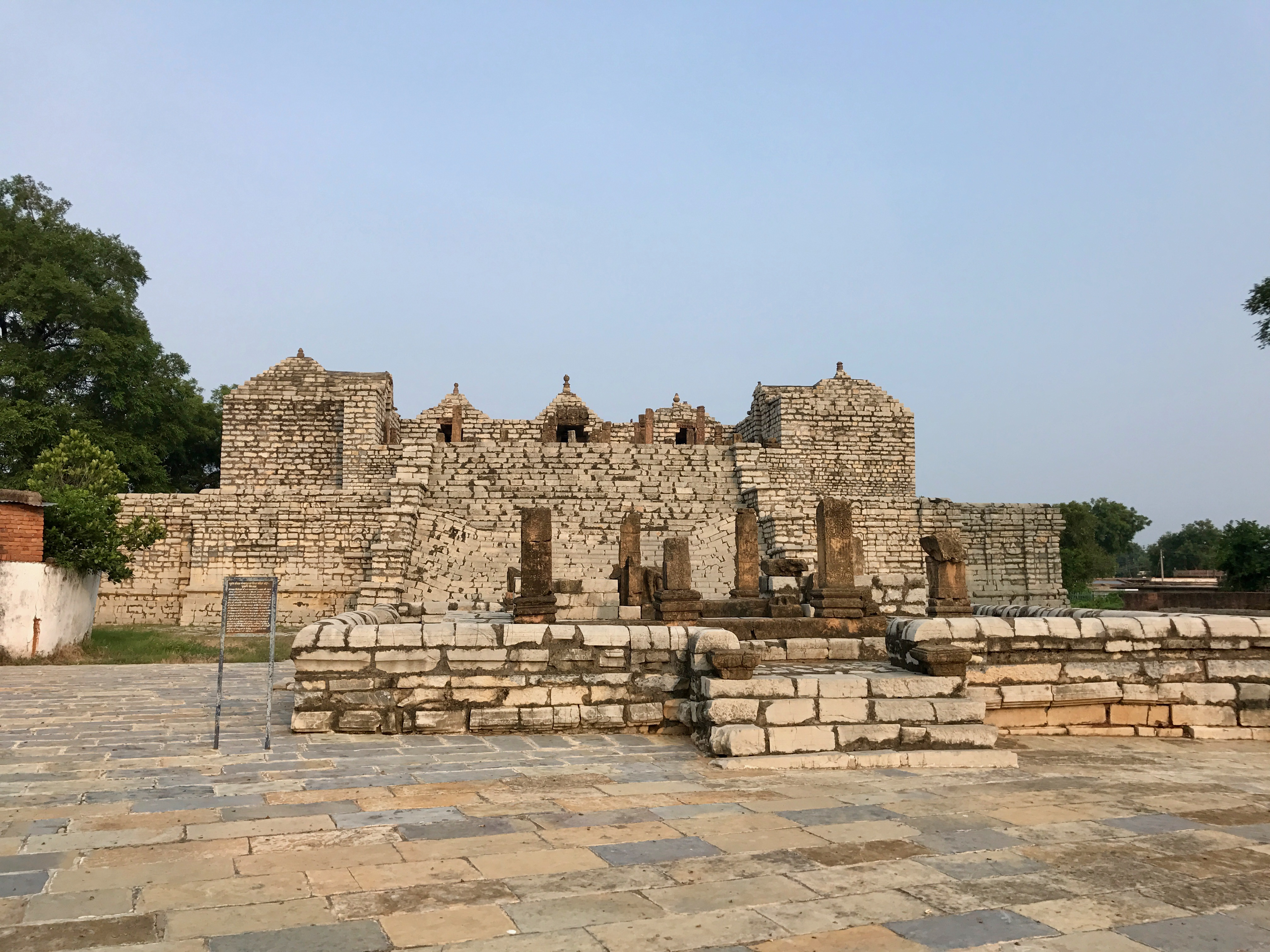 Sirpur, also referred in medieval era texts as Shripur (city of wealth), is a town on the banks of Mahanadi in Chhattisgarh. The site became archaeologically significant after a visit and report on a Laxman (Lakshmana) temple in 1872 by Alexander Cunningham, a colonial British India official. Sirpur is mentioned in the memoirs of the Chinese traveler Hieun Tsang as a location of monasteries and temples. The site has been significant for its temple ruins of Rama and Lakshmana of the Ramayana fame. The site excavations after 1960, particularly after 2003, have yielded 22 Shiva temples, 5 Vishnu temples, 10 Buddha Viharas, 3 Jain Viharas, a 6th/7th century market and snana-kund (bath house). The site shows extensive syncretism, where Buddhist and Jain statues or motifs intermingle with Shiva, Vishnu and Devi temples. The region was conquered and plundered by the armies of Delhi Sultanate and later Deccan Sultanates. The town and temples were damaged in the wars and were abandoned. Dense vegetation grew over it and floods deposited silt. There is also evidence of possible earthquake damage or soil / ground underneath a structure caving in / sinkhole subsidence. 20th and 21st century excavations have unearthed many monuments. The site is large and artwork stick out of farmlands and dirt roads in and near Sirpur.